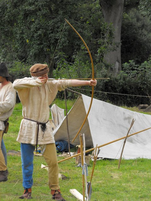 Member of The Montgomery Levy displaying archery in mediaeval times